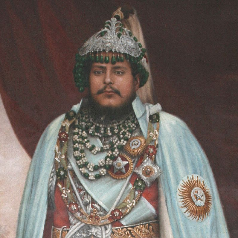 Bir Shamsher Jang Bahadur Rana